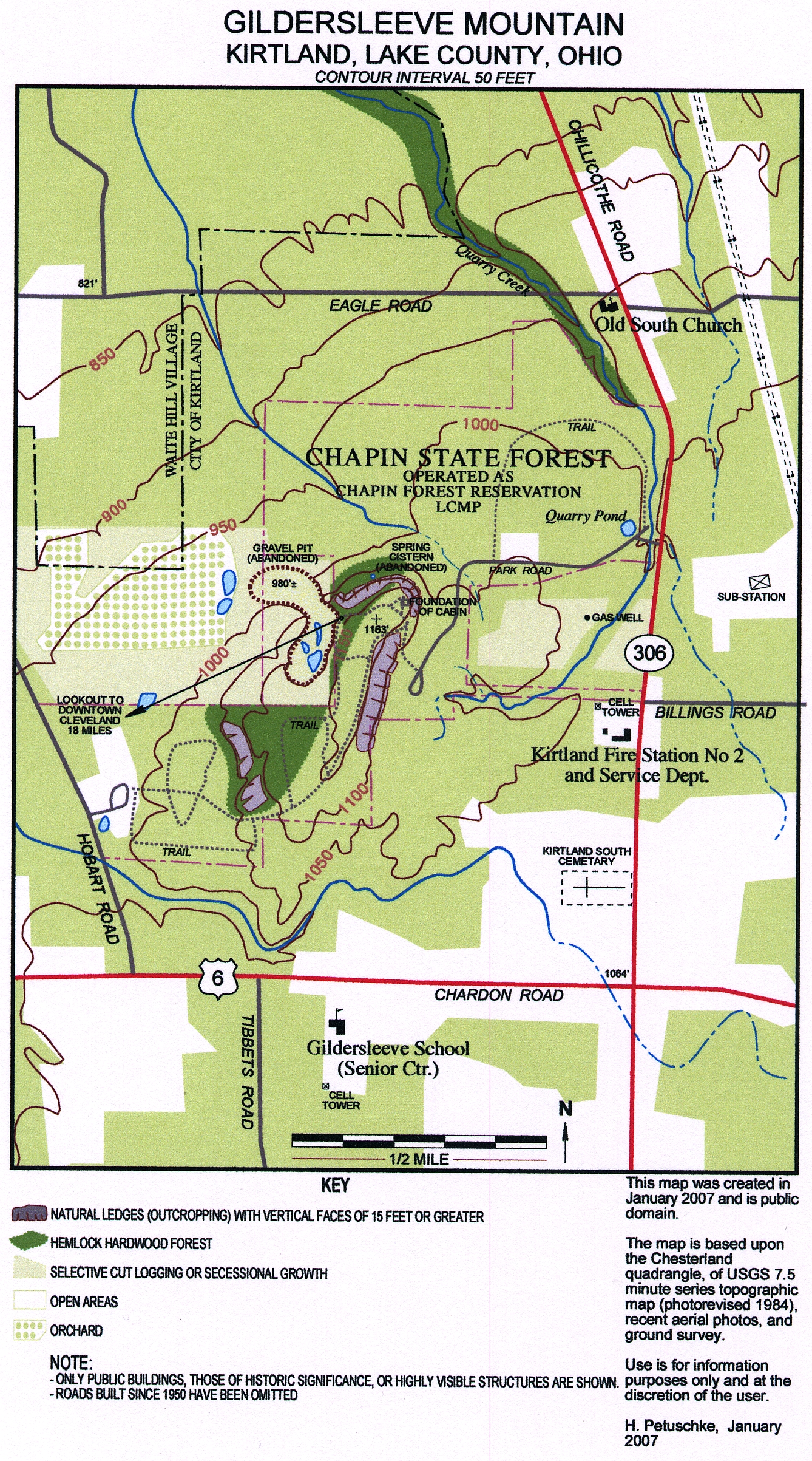 Created by H. Petruschke for use in this article. Credit requested. User assumes all risk